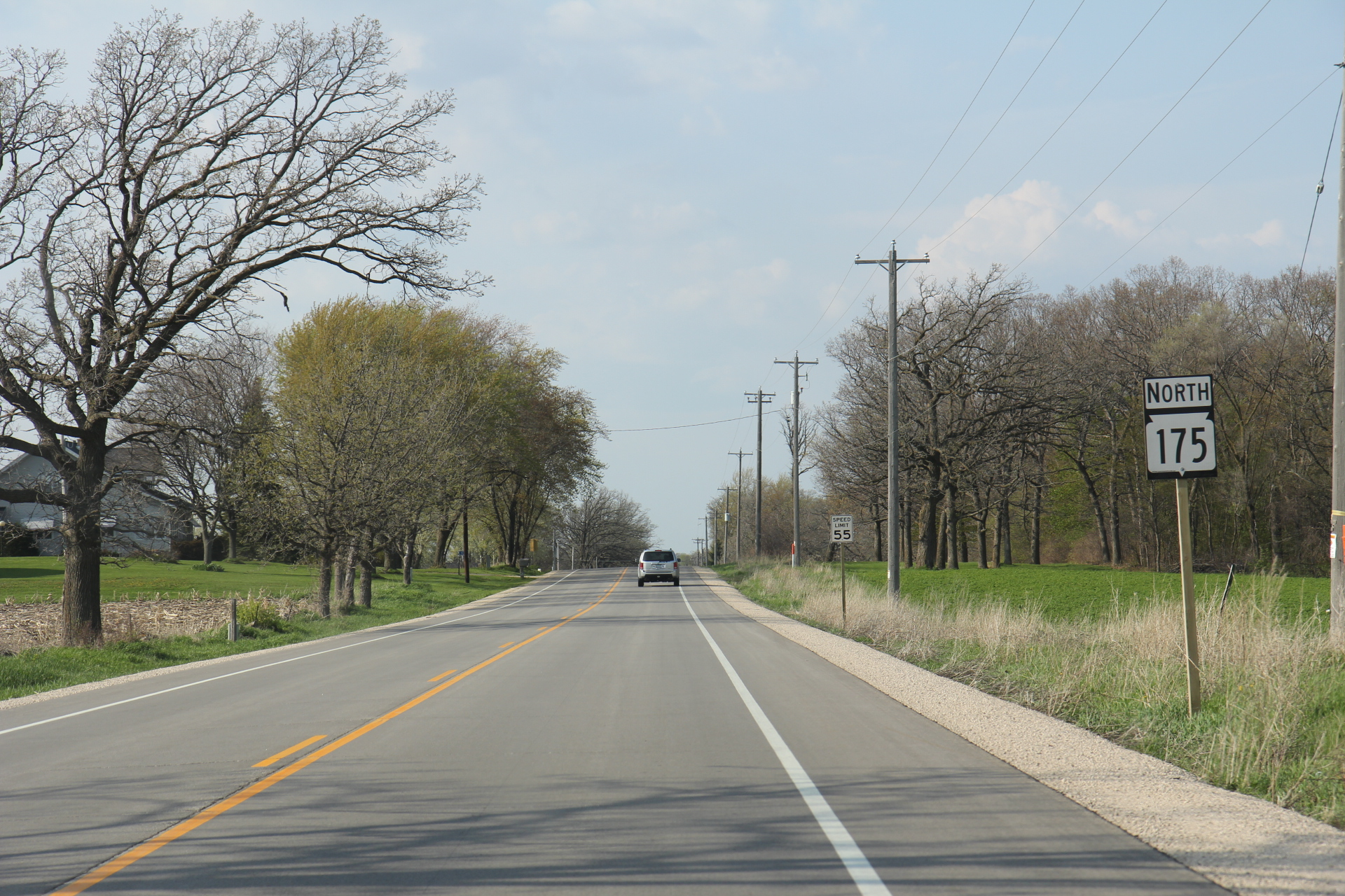 Looking north while traveling on Wisconsin Highway 175 in the Town of Byron.